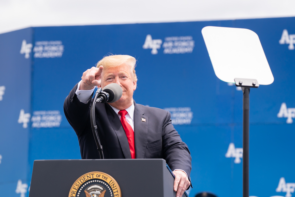 President Donald J. Trump recognizes U.S. Air Force Academy Cadet Parker Hammond at the 2019 U.S. Air Force Academy Graduation Ceremony Thursday, May 30, 2019, at the U.S. Air Force Academy-Falcon Stadium in Colorado Springs, Colo. Cadet Hammond battled cancer while attending the academy. (Official White House Photo by Shealah Craighead)